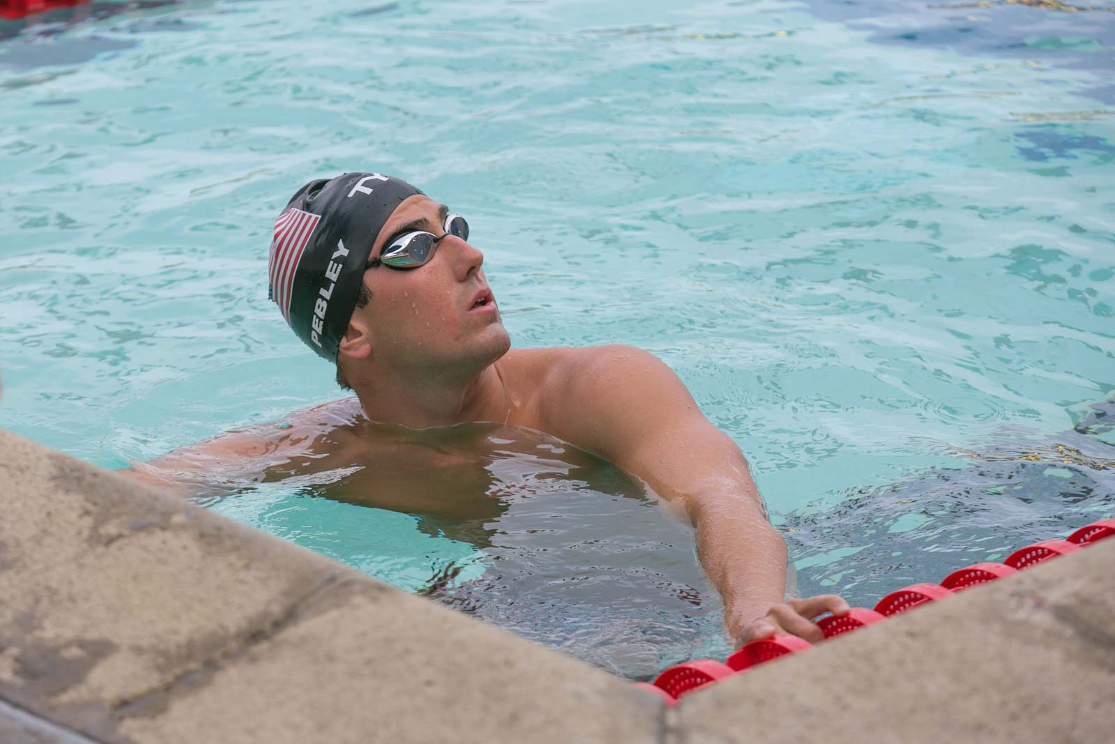 Jacob Pebley during warmups